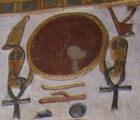 Relief from the sanctuary of Khonsu Temple (at Karnak depicting the sun disk with two uraei coiled around it